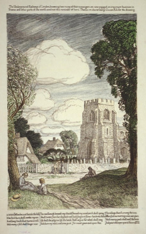 World War I poster by English painter George Clausen (1852-1944). Poster showing an idyllic English village scene with the caption: "The Underground Railway of London, knowing how many of their passengers are now engaged in important business in France and other parts of the world, send out this reminder of home. Thanks are due to George Clausen RA for the drawing." Below the drawing is a poem by Samuel Rogers (1863-1855), "A wish, mine be a cot beside the hill..."